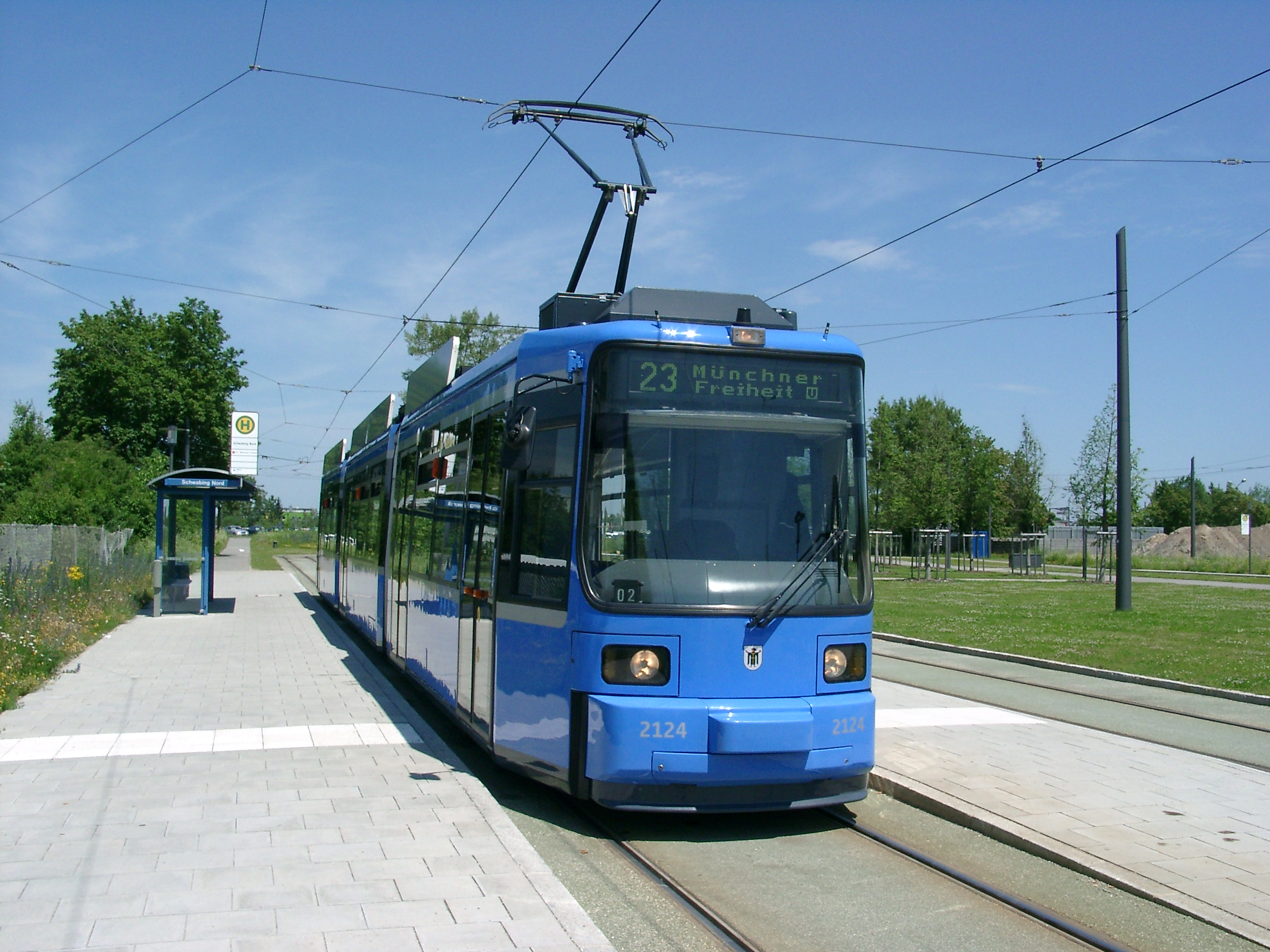 Tramway "Lila Kalb" from Munich